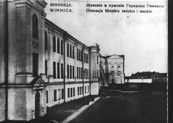 Postcard of the walls (Moory) and Jesuits Roman Catholic Collegium in Vinnitsa, Ukraine